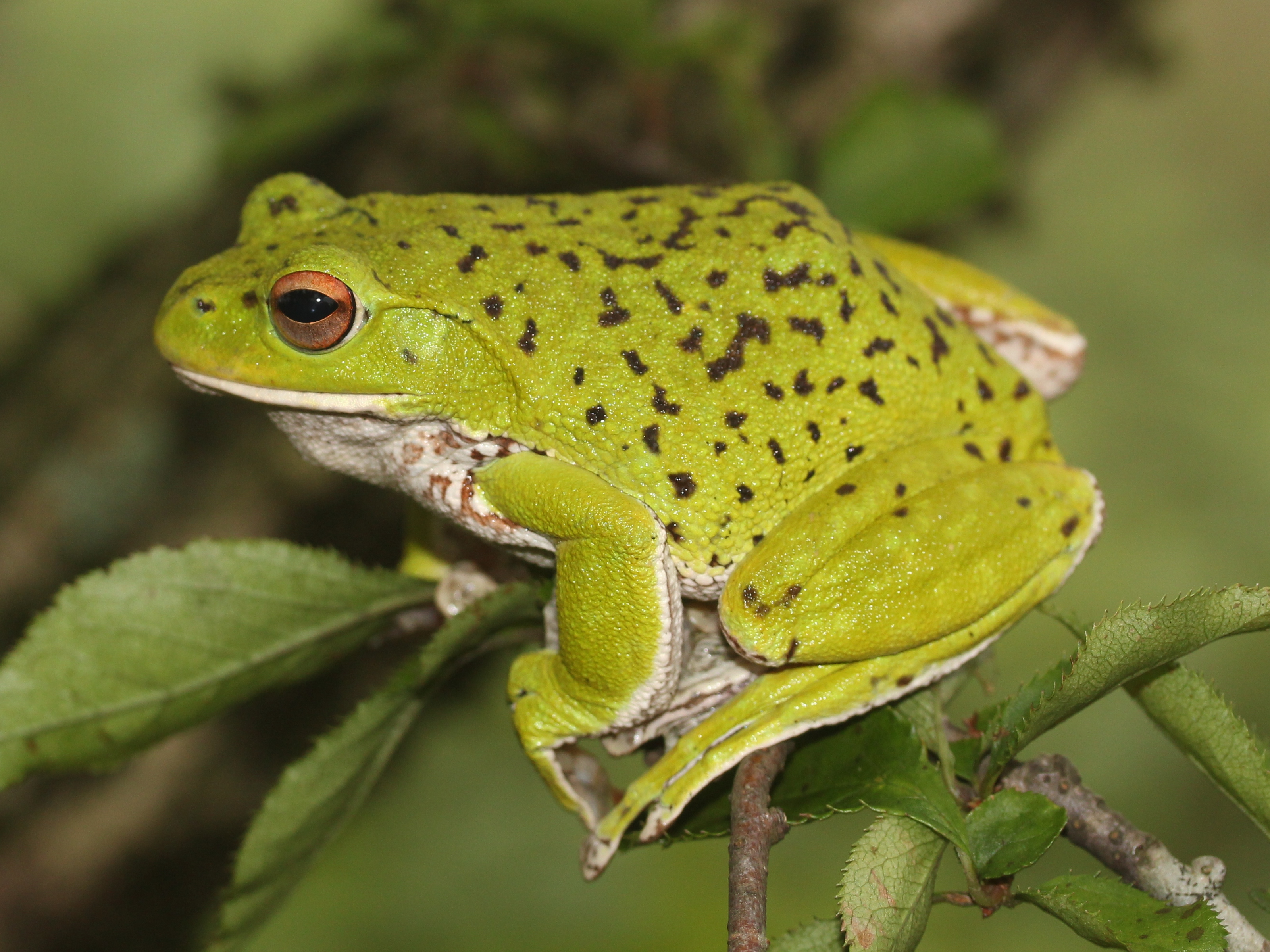 Rhacophorus arboreus in Mount Ibuki, Shiga pref., Japan.